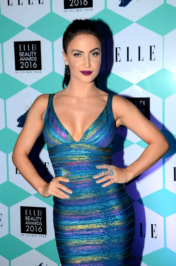 Elli Avram graces the Elle Beauty Awards 2016